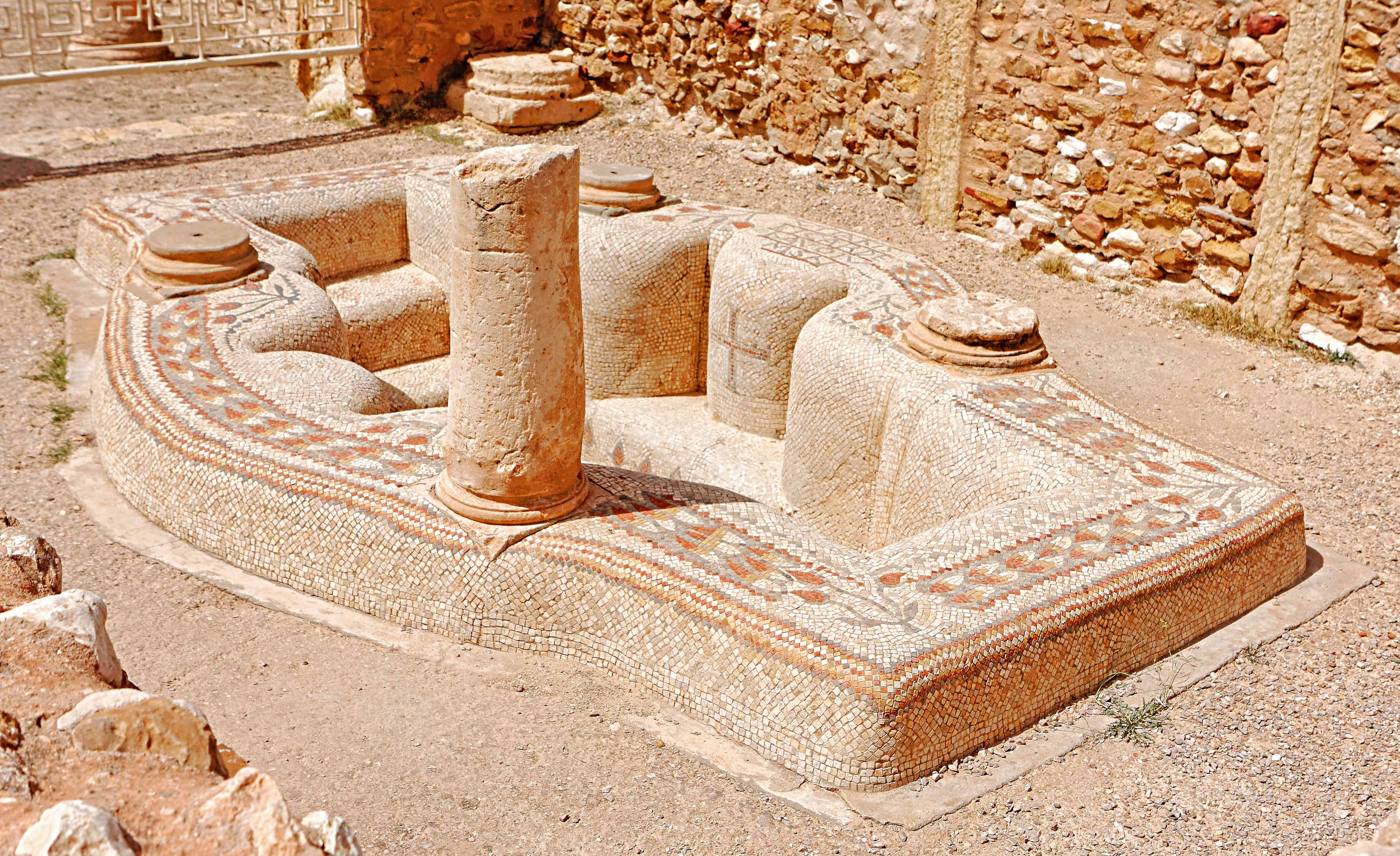 Baptistery of Vitalis Sbeitla church.